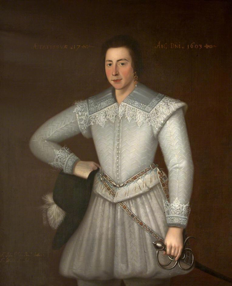 Sir John St John (c.1585–1648), Aged 17 (later 1st Bt)